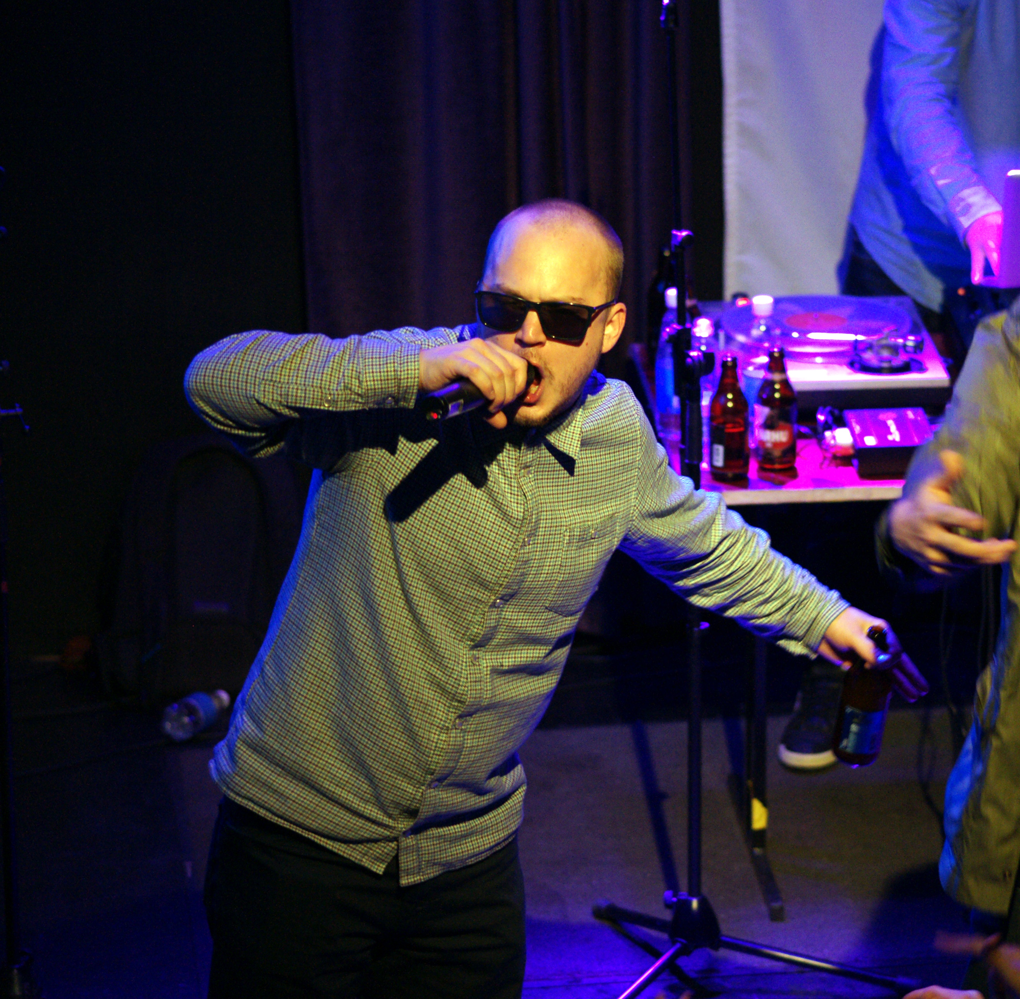 Ruger Hauer performing at Bar Kino, Pori, Finland.